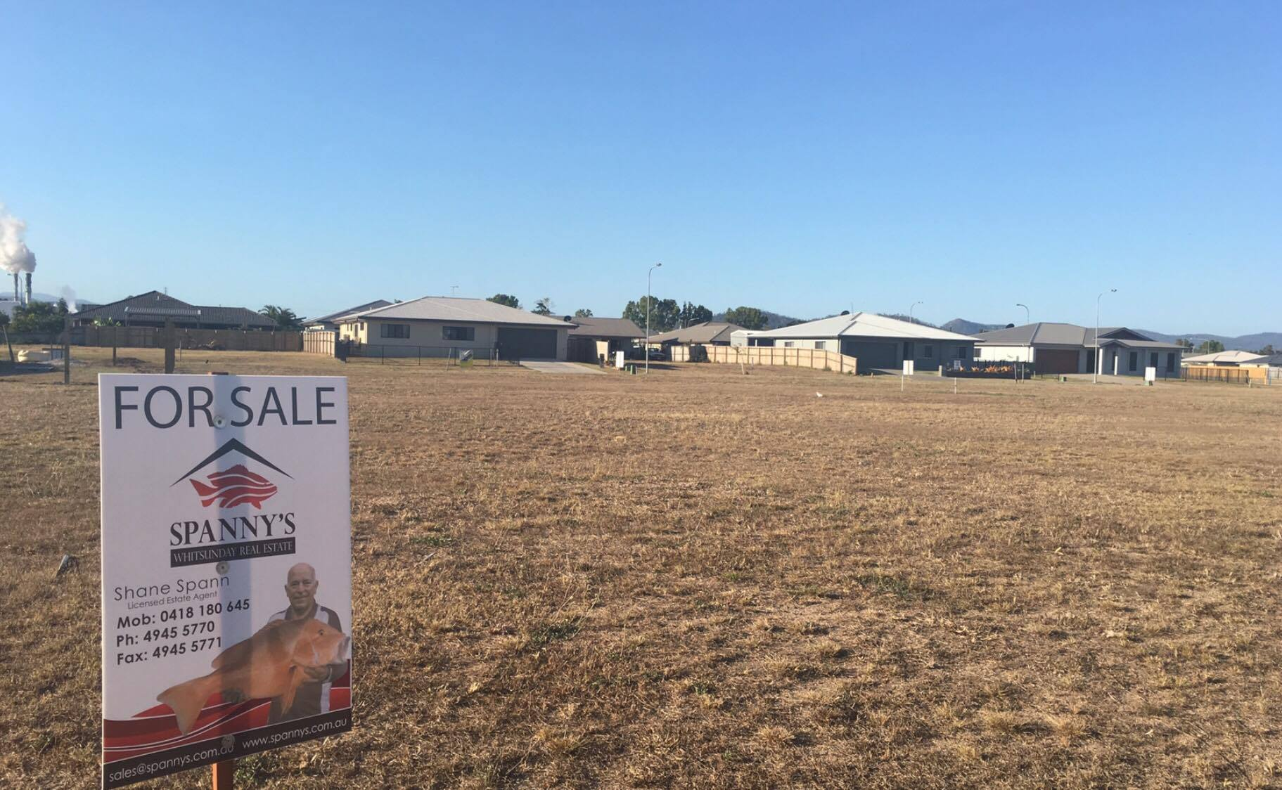 Land for sale in the expanding southern area of Proserpine.